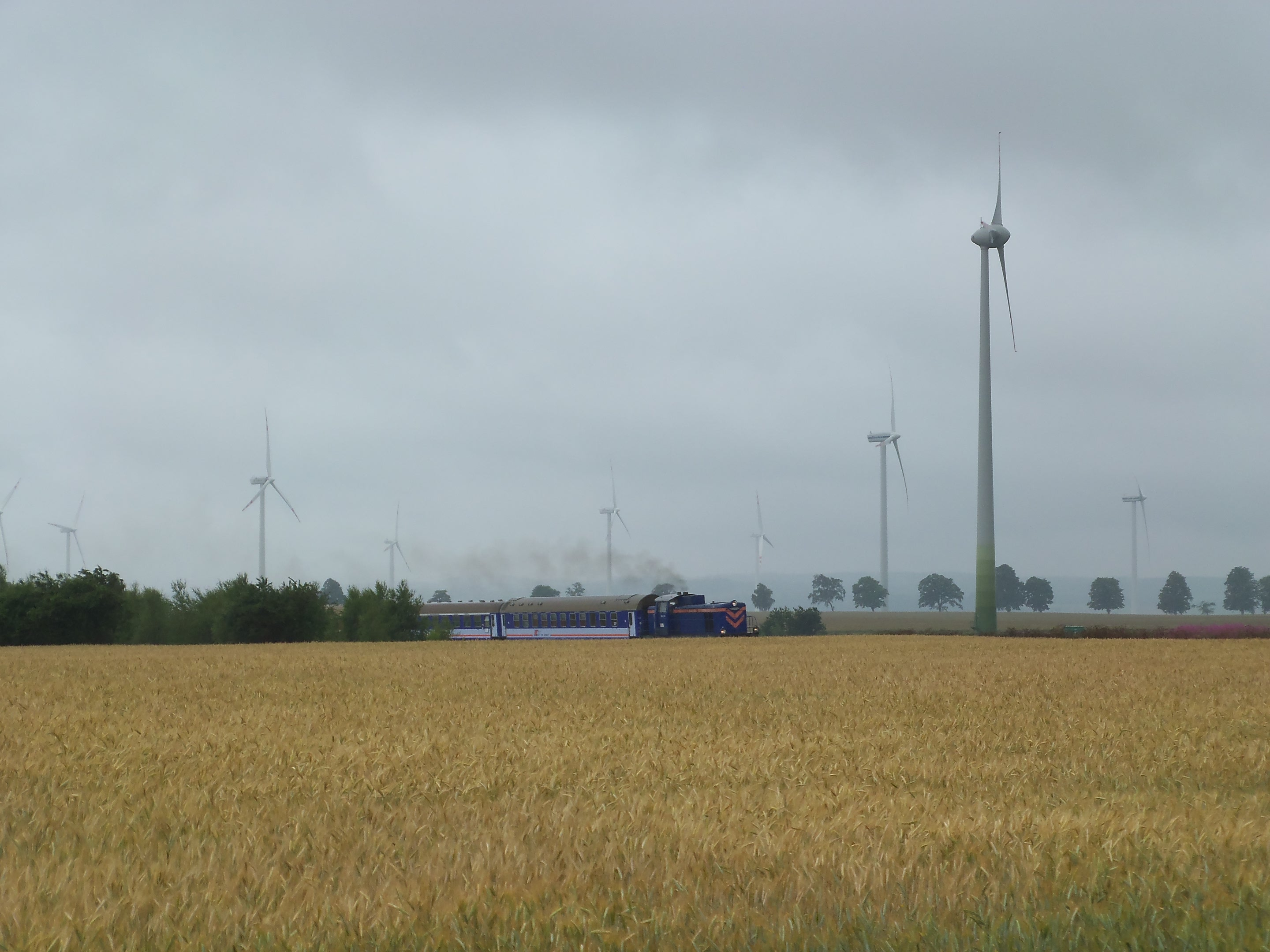 Wind turbines in the Baltic Sea, Puck County, Poland.